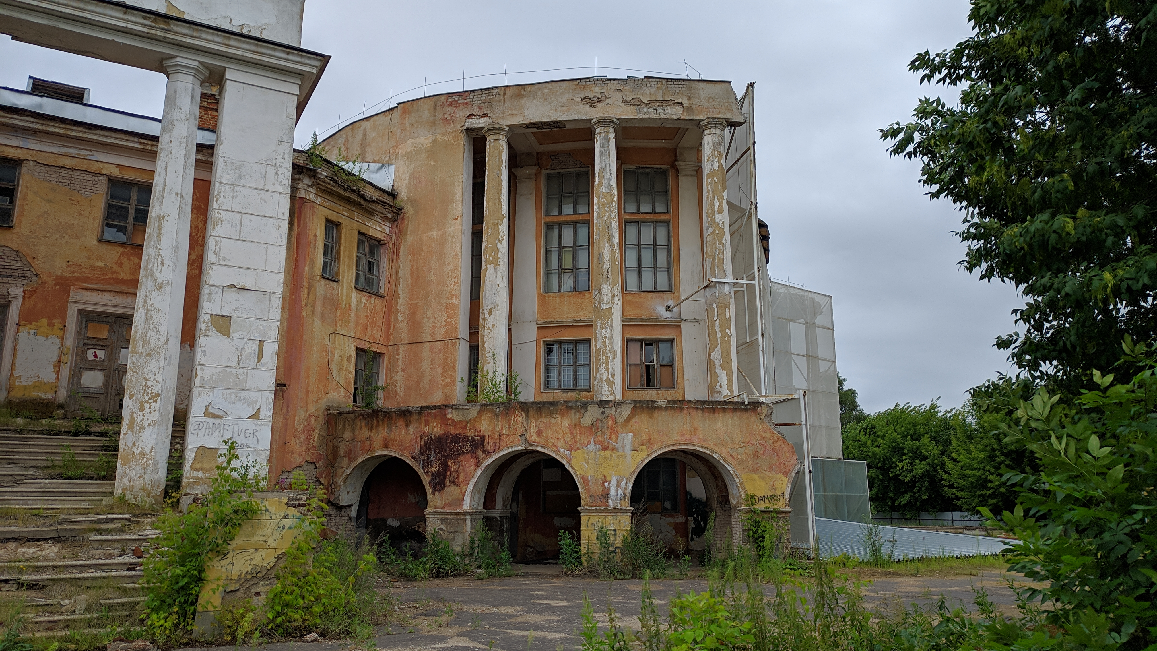 Current state of the Tver river terminal's building as seen on June 29th 2019 (Tver, Russia)